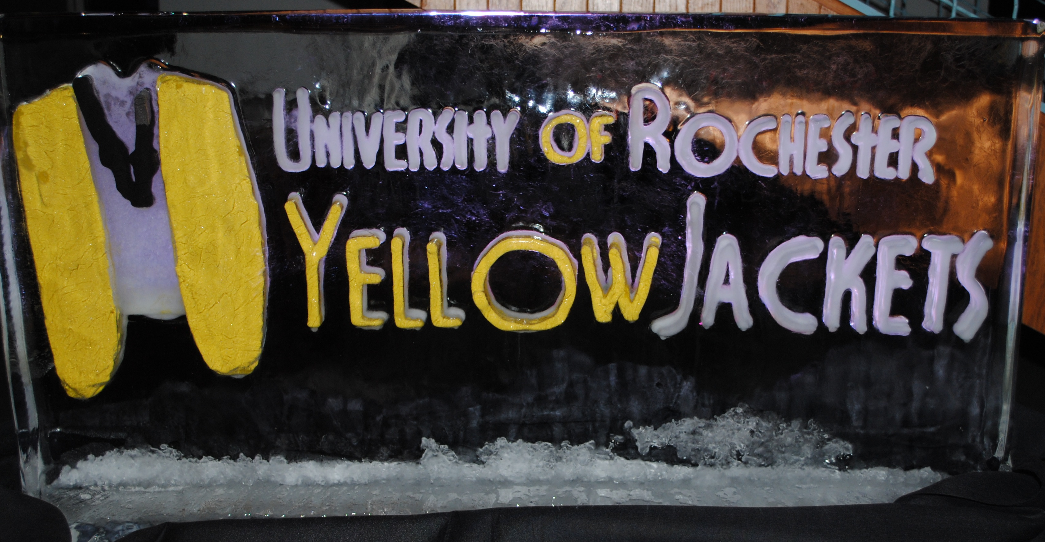 An ice carving at the 2010 University of Rochester Boar's Head Dinner honoring the 2009 Winner of the Boar's Head Award, The YellowJackets.